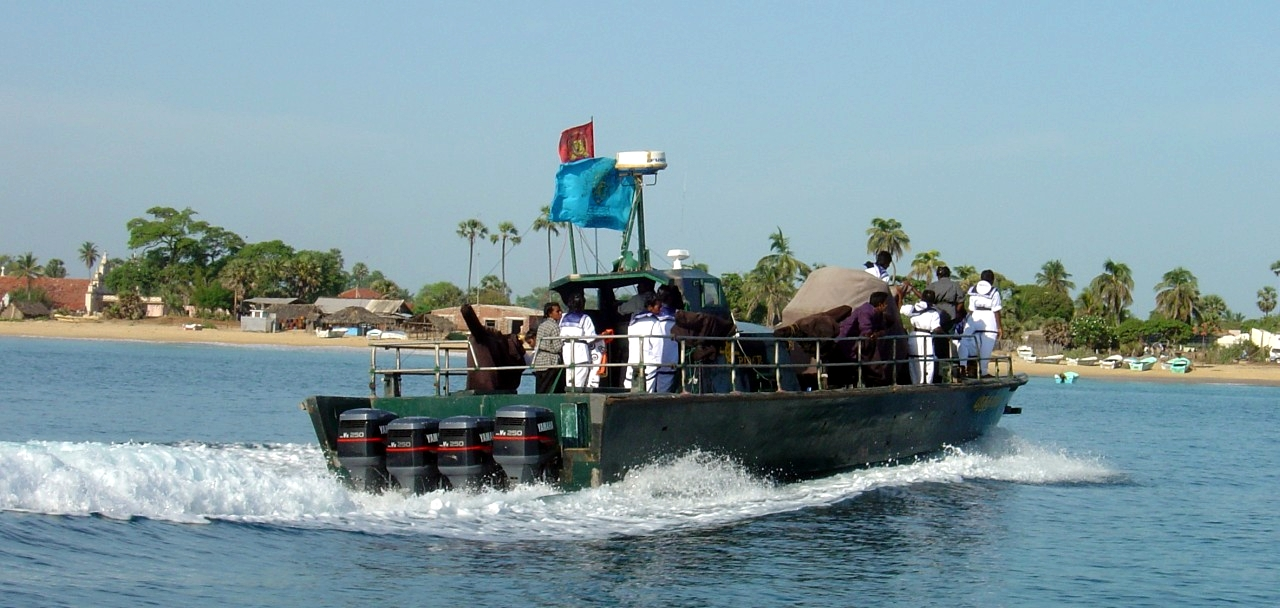 A LTTE Sea Tiger fast attack boat off Mullaitivu in May 2004. Taken by Ulf Larsen, with a Sony Cybershot DSC-P10